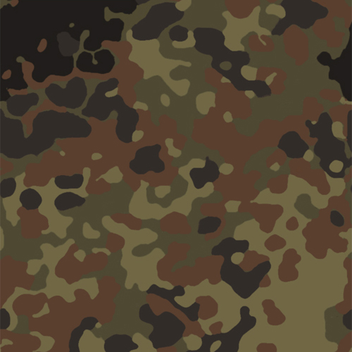 A roughly 30 x 30 cm sqiare of the German Flecktarn pattern. Redrawn from photo of actual specimen.